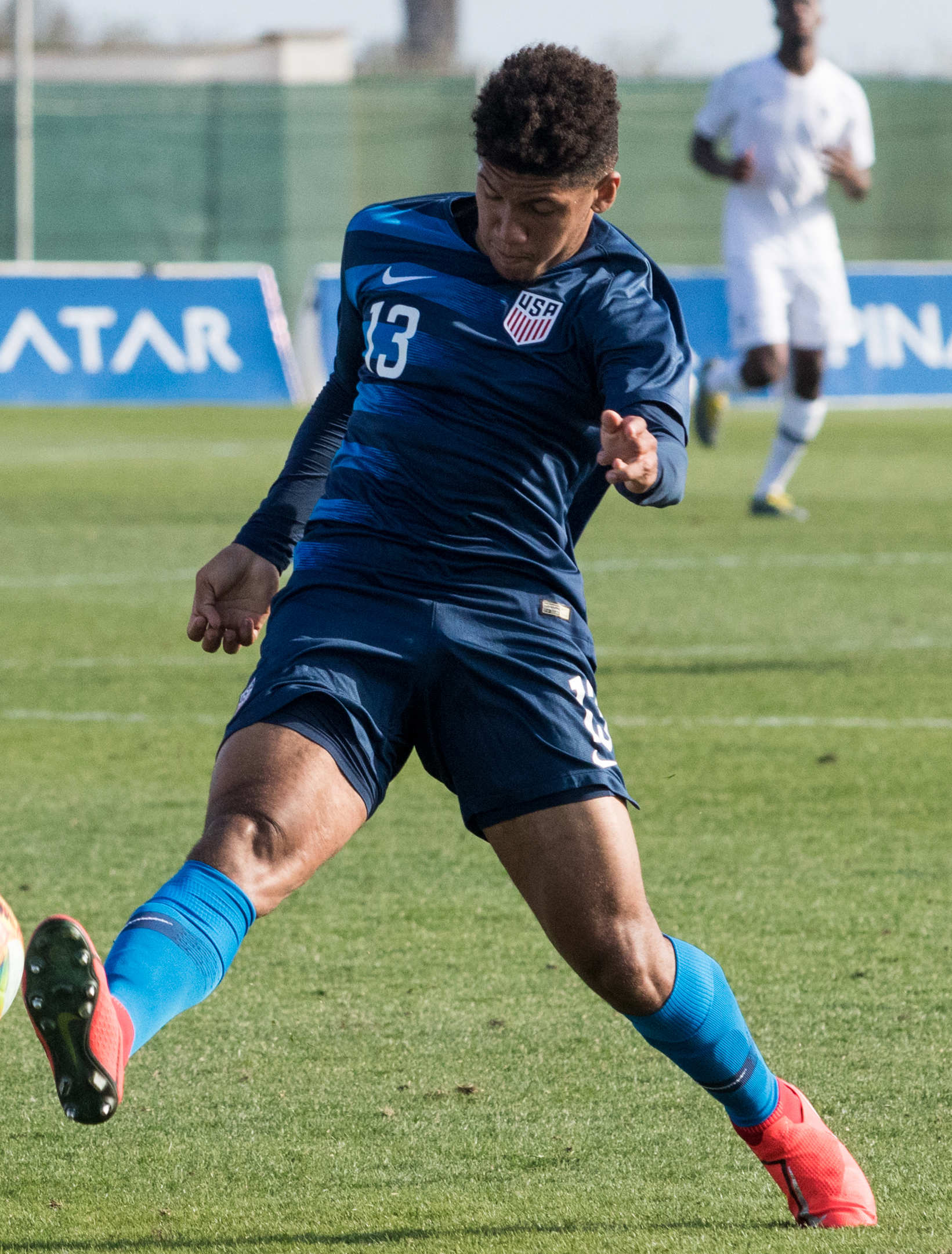 USA U20 v France U20, 22 March 2019